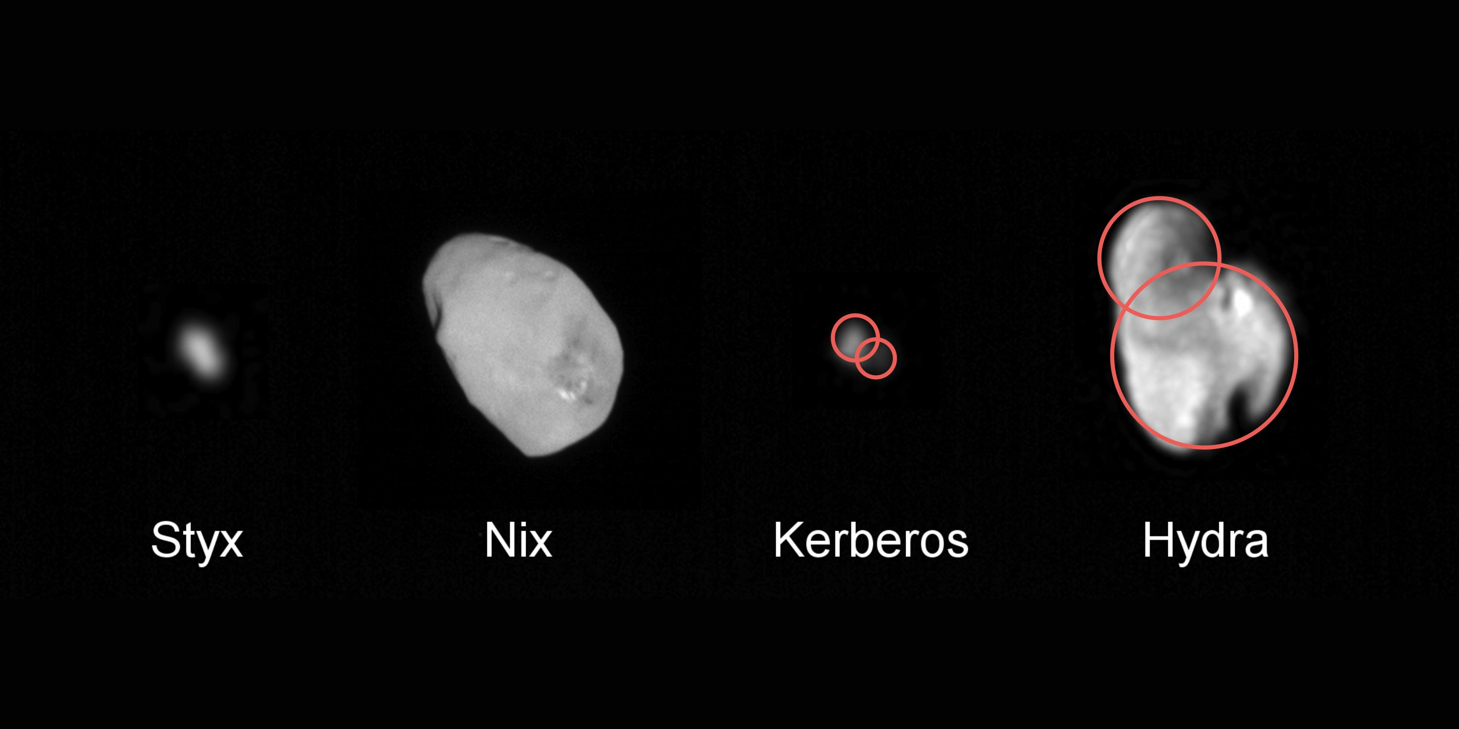 PIA20153: Merged Bodies NASA's New Horizons data indicates that at least two (and possibly all four) of Pluto's small moons may be the result of mergers between still smaller moons. If this discovery is borne out with further analysis, it could provide important new clues to the formation of the Pluto system. The Johns Hopkins University Applied Physics Laboratory in Laurel, Maryland, designed, built, and operates the New Horizons spacecraft, and manages the mission for NASA's Science Mission Directorate. The Southwest Research Institute, based in San Antonio, leads the science team, payload operations and encounter science planning. New Horizons is part of the New Frontiers Program managed by NASA's Marshall Space Flight Center in Huntsville, Alabama.